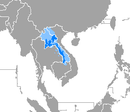 Majority status Minority status